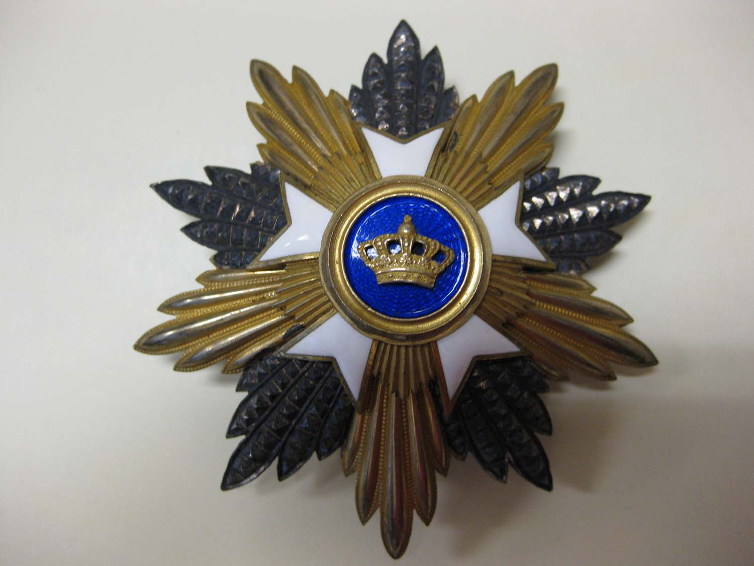 Accession: 66-50-F Medal, Badge, Belgium, Order of the Crown (Grand Cross Star) 4.37"H x 5.62" W Medal awarded to FADM C.Nimitz. Collection of Curator Branch, Naval History and Heriatge Command.